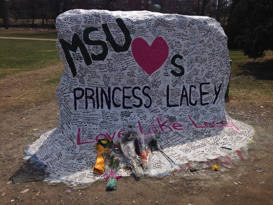 The Michigan State University Rock, April 10, 2014